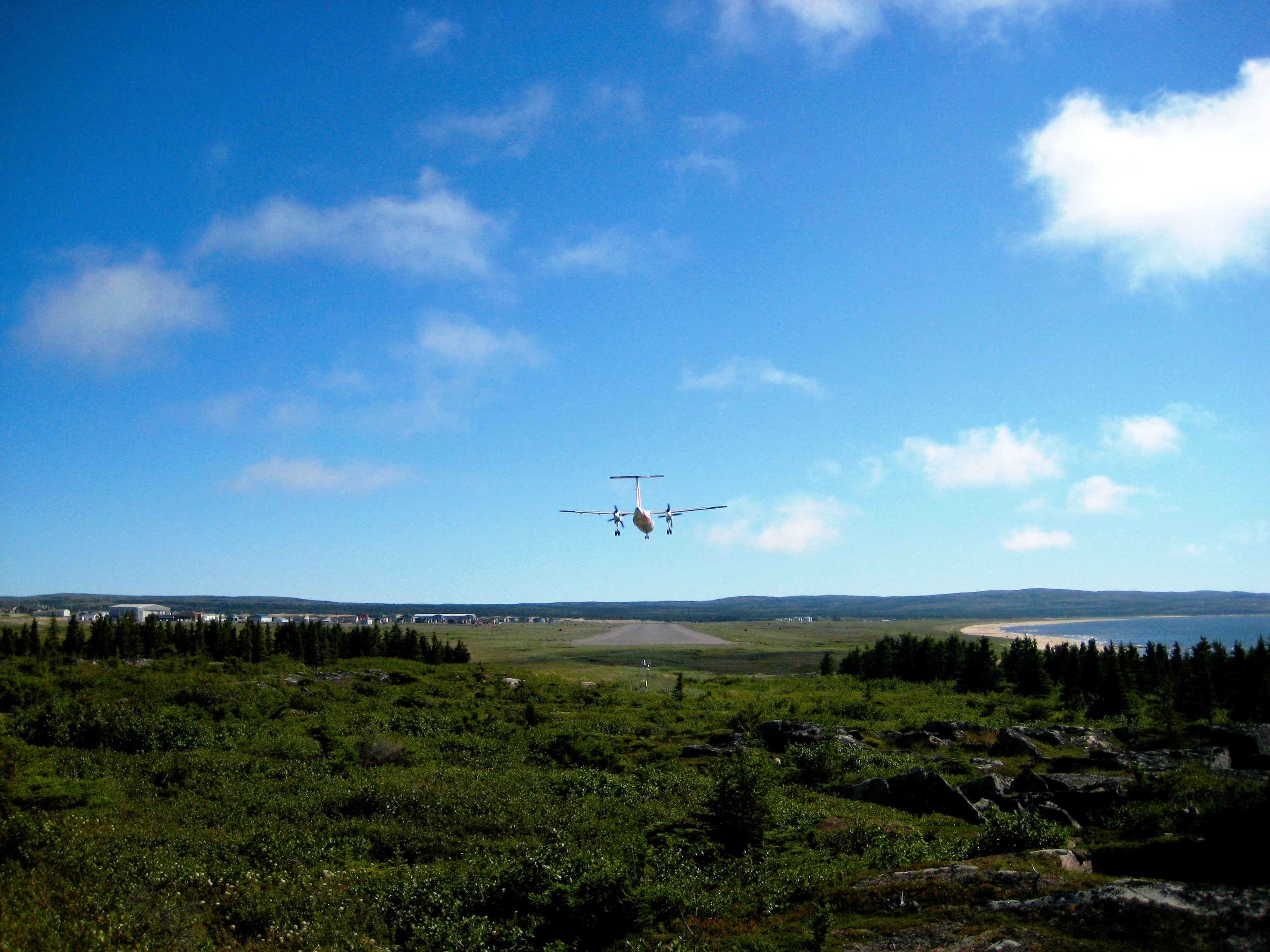 Dash 8 on final runway 22 at Kuujjuarapik Airport